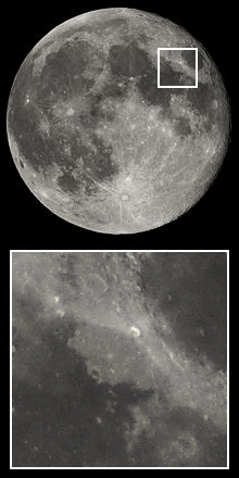 Location of Palus Somni on the Moon